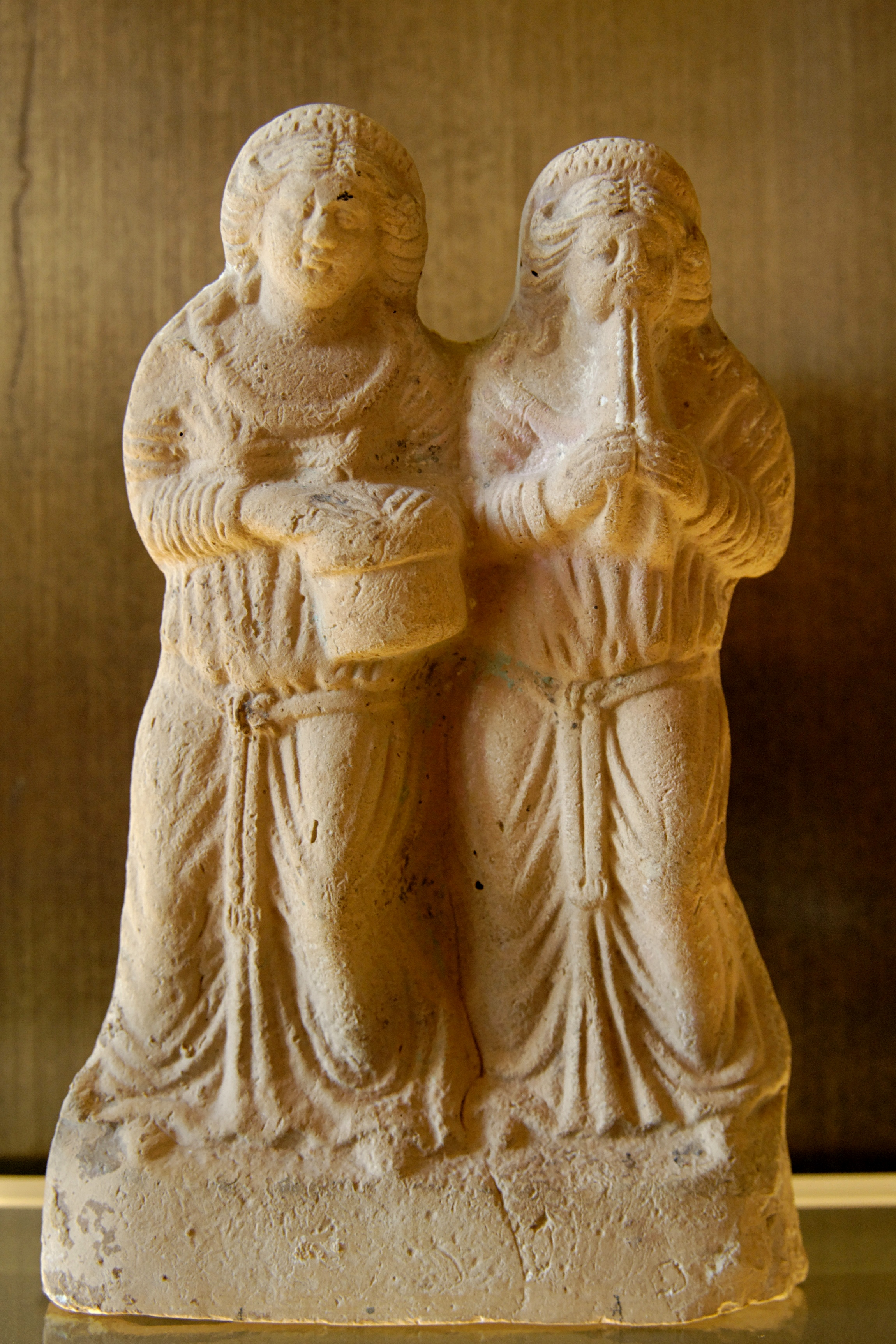 Women playing the aulos and the tambourine. Terracotta figurine made in Syria, 2nd–3rd centuries AD.